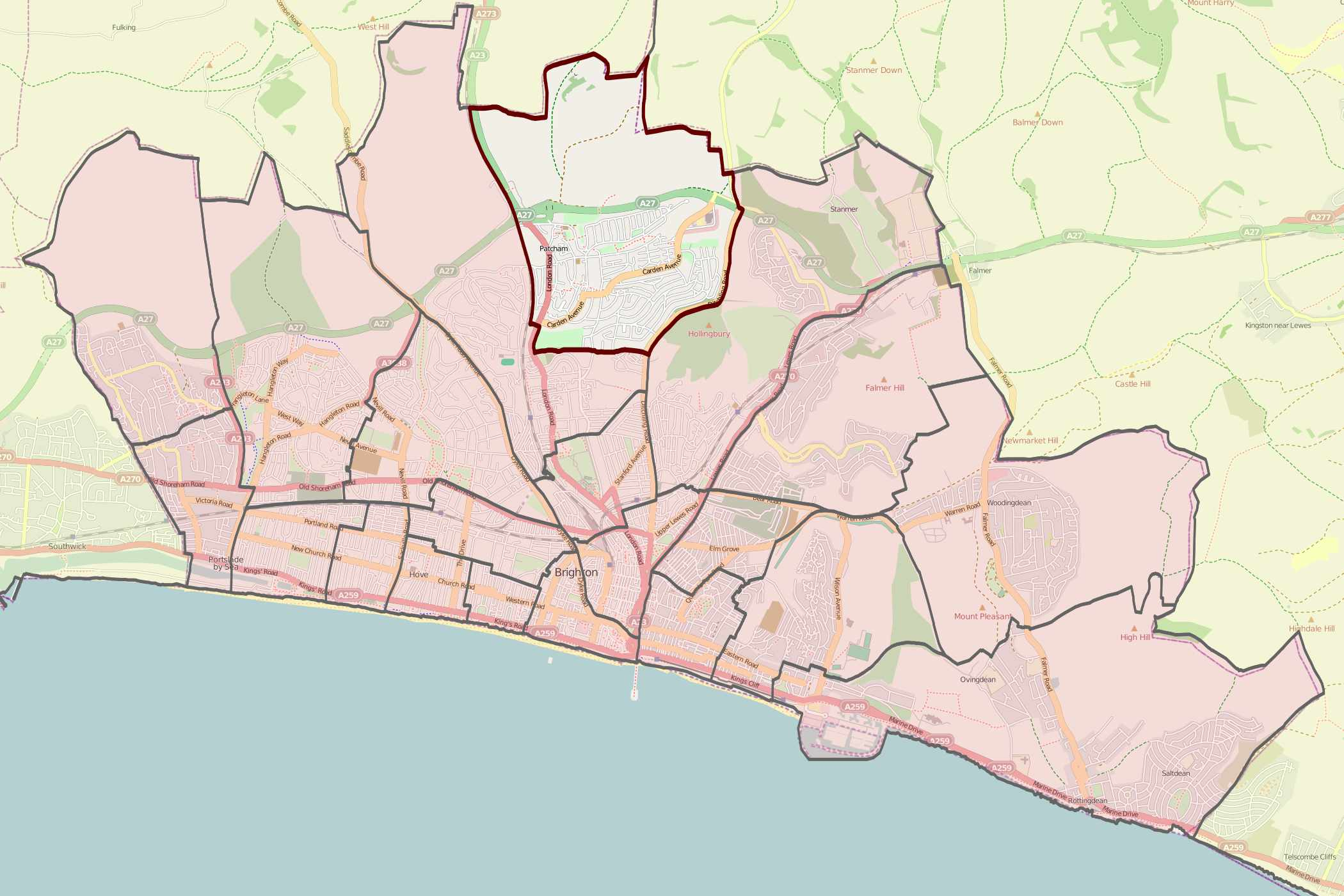 Map of Brighton and Hove wards with one ward highlighted